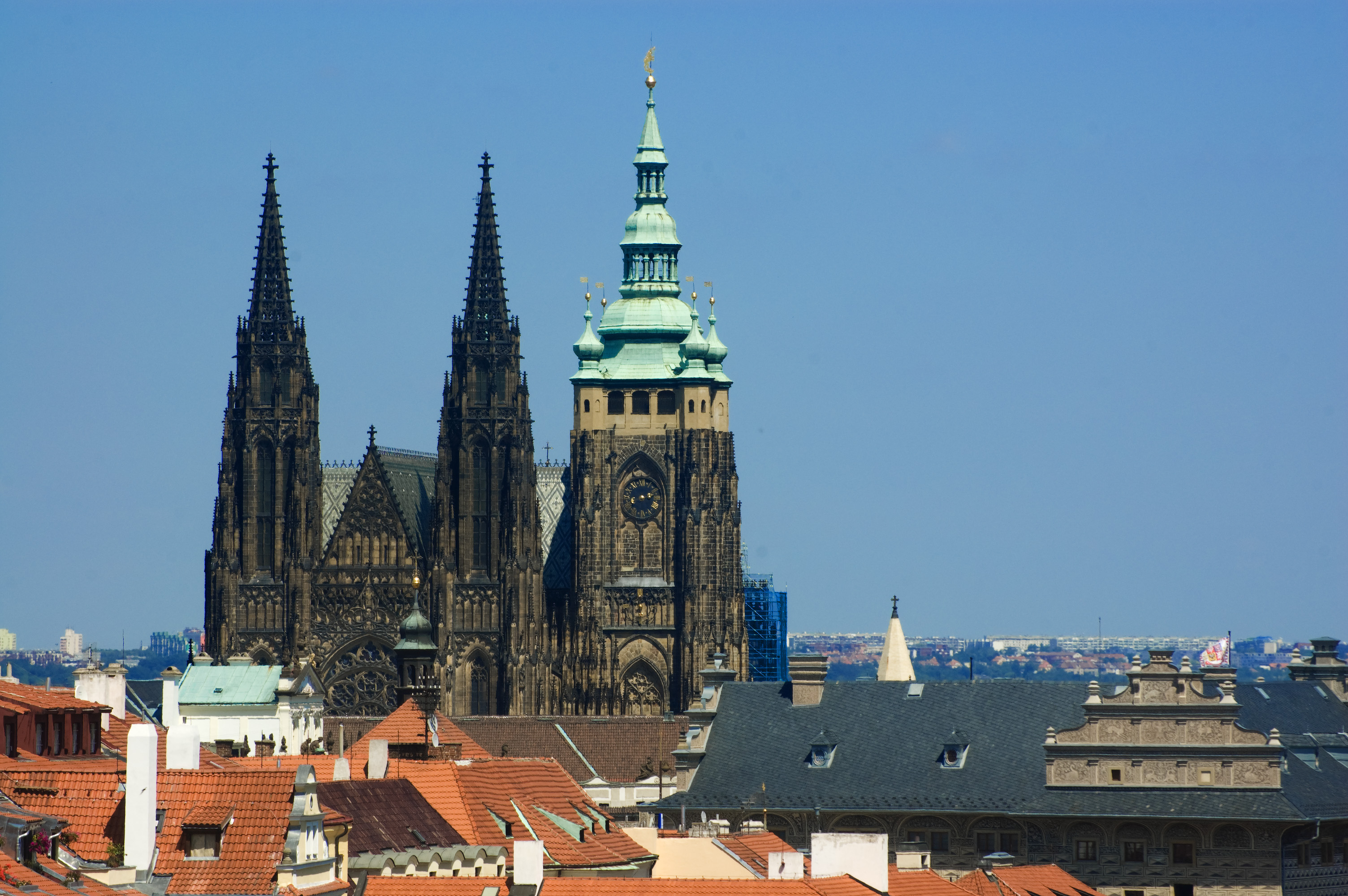 The St. Vitus Cathedral in Prague, Czech Republic.